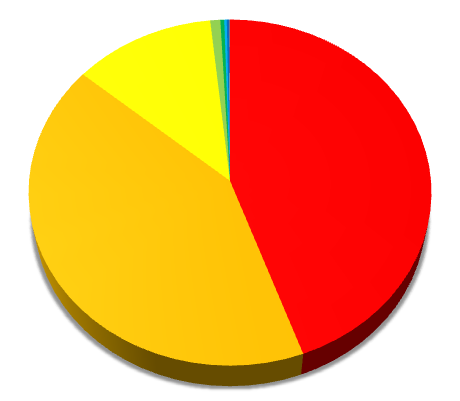 Expressed as a pie chart in the Tokyo gubernatorial election in 1967, the number of votes for each candidate. explanatory notes ■ - Ryokichi Minobe ■ - Masatoshi Matsushita ■ - Kenichi Abe ■ - Kiyoyuki Watanabe ■ - Bin Akao ■ - Wataru Shimizu ■ - Yoshikazu Kubo ■ - Taketoshi Nonogami ■ - Seijiro Kiyosaku ■ - Sanesada Yonamine